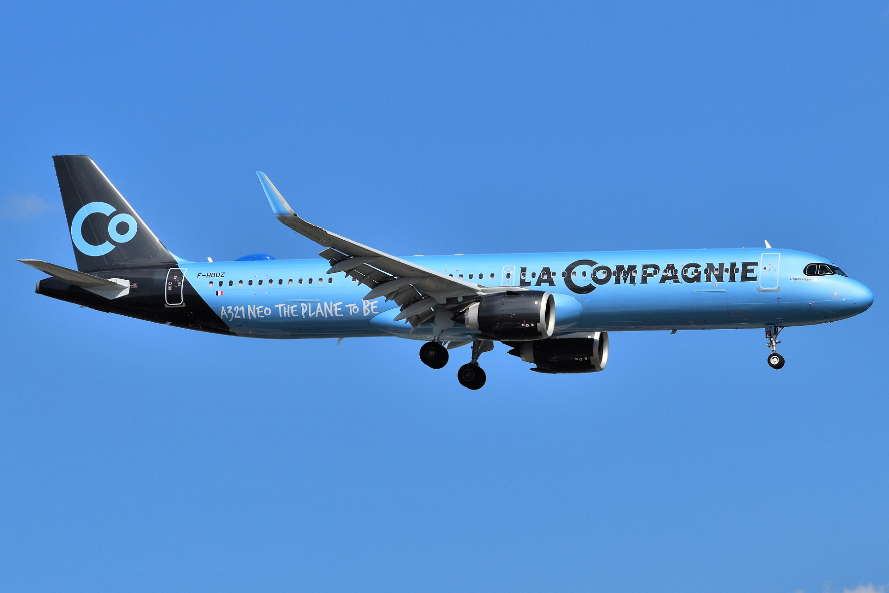 La Compagnie's first A321neo aircraft is on final approach to Newark Liberty International Airport. Shortly after this image was taken, this aircraft declared a missed approach.